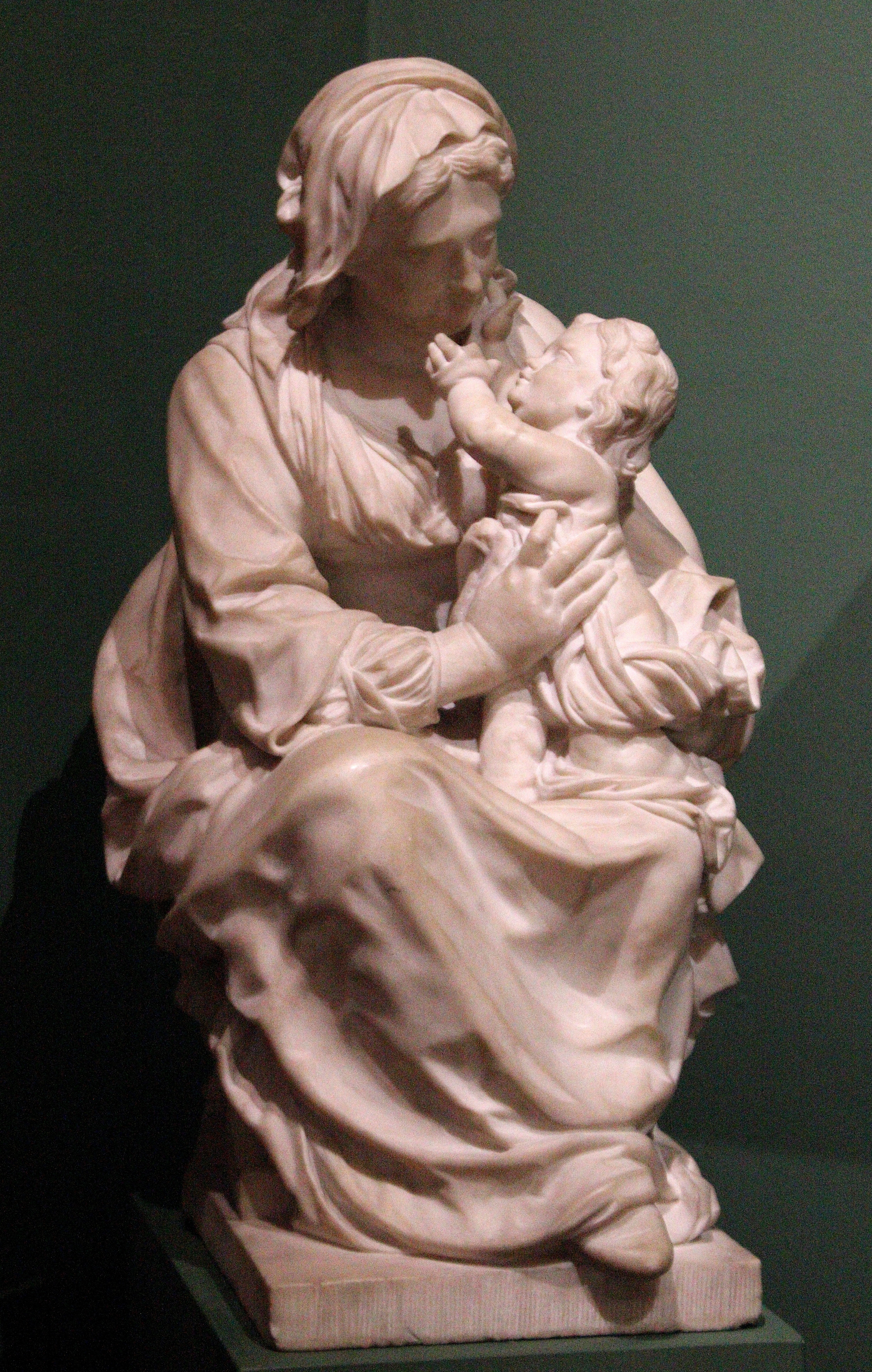 Madonna and child by Lucas Faydherbe (1675). Baroque style. Rockoxhuis, Antwerp, Belgium